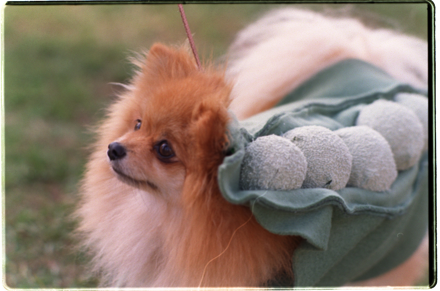 A Pomeranian dressed as a Peapod at Pet Pride Day, San Francisco, 2002. Photo by Nancy Wong